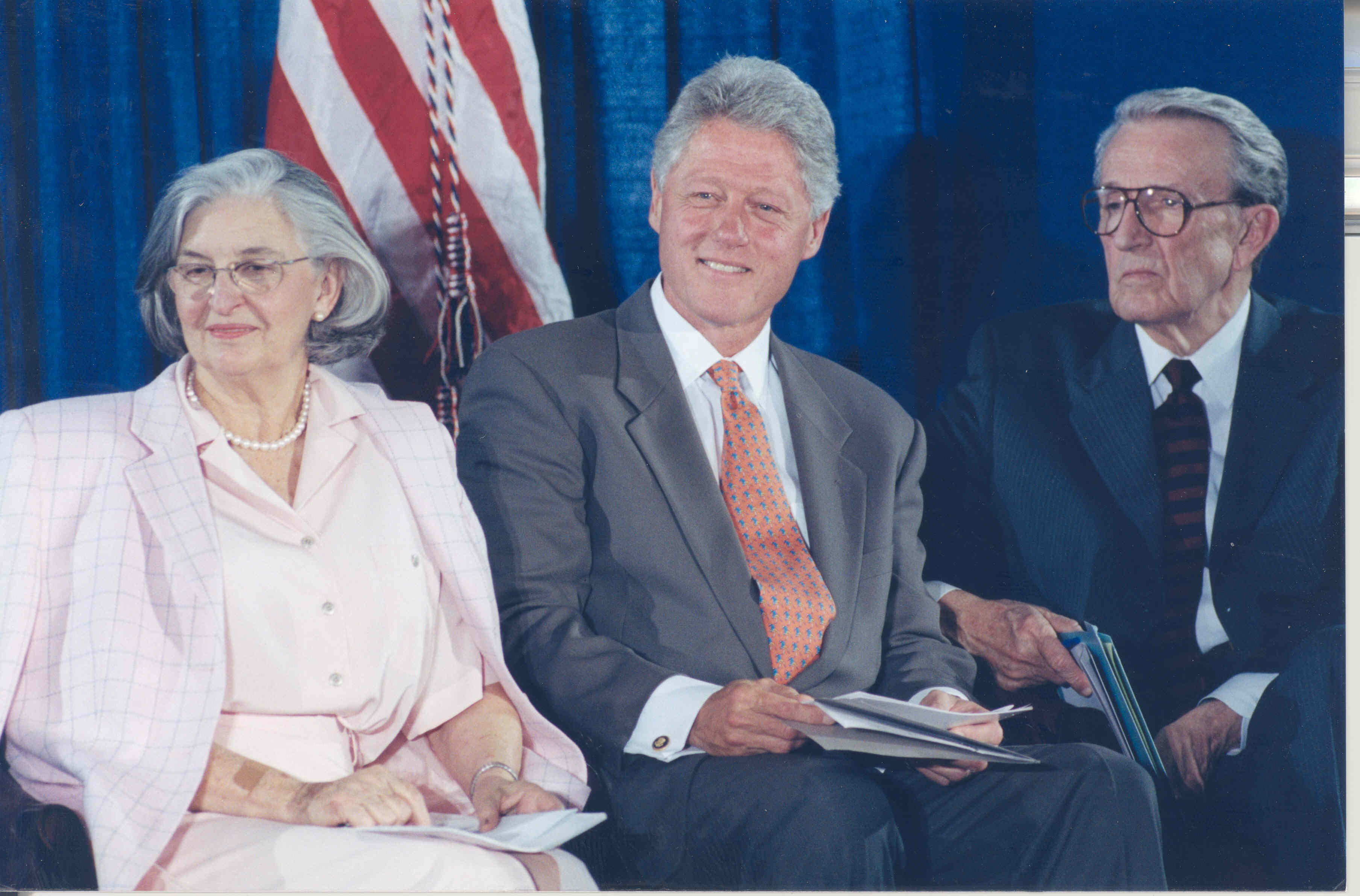 Mrs. Betty Bumpers, President Bill Clinton, and Senator Dale Bumpers during the cornerstone dedication ceremony for the Dale and Betty Bumpers Vaccine Research Center on June 9, 1999.